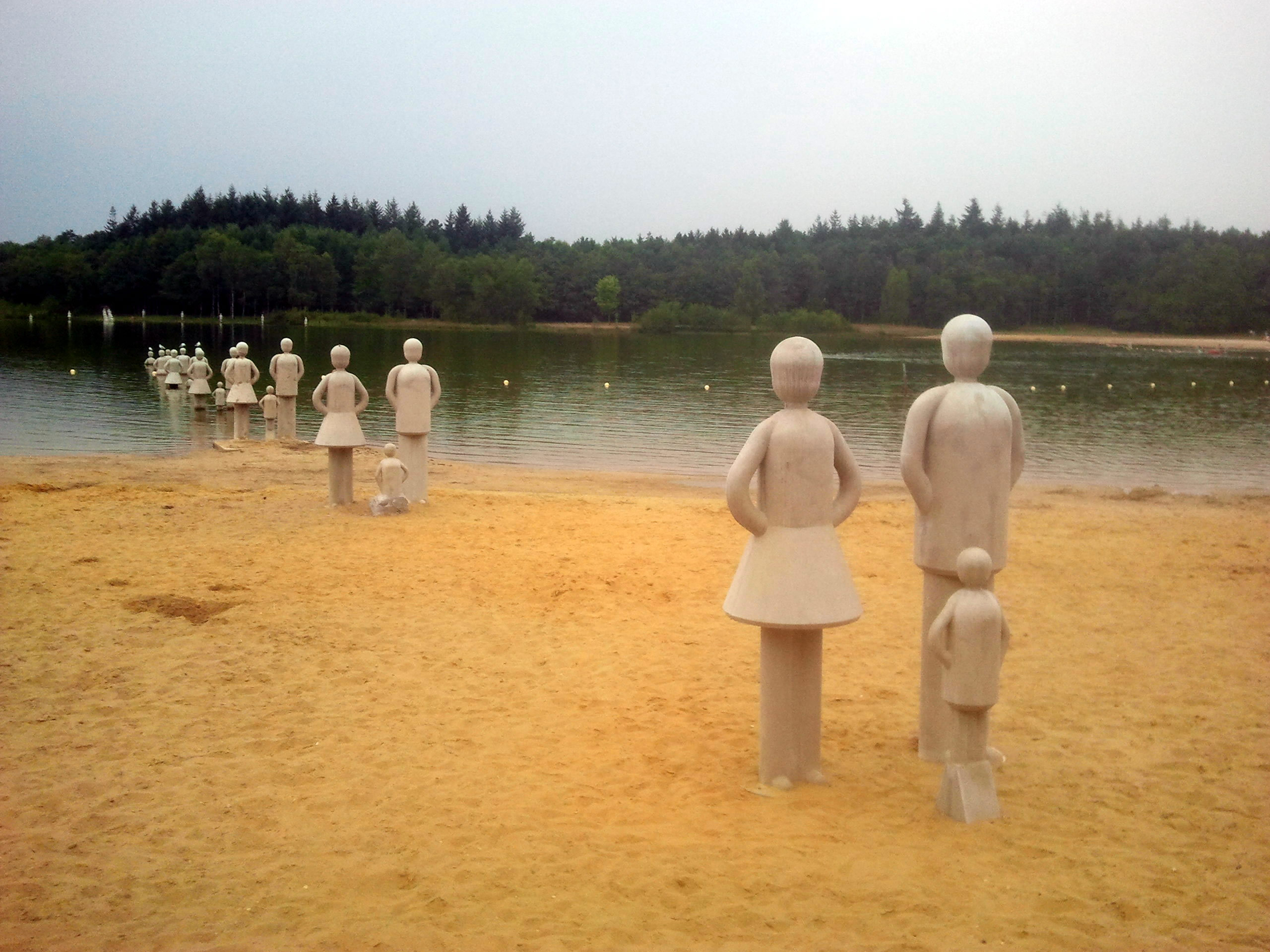 Statue at Heerderstrand Heerde, the Netherlands